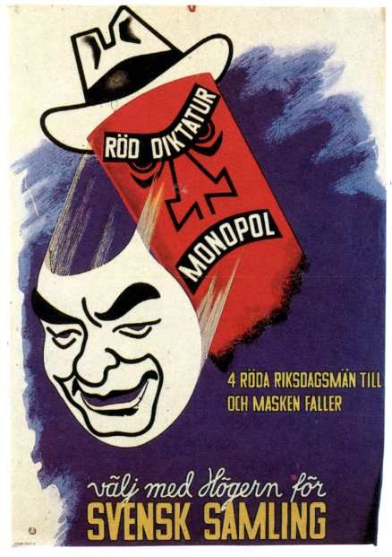 Poster from the 1928 Swedish elections. The face of the mask belongs to Prime Minister Per-Albin Hansson; The words on the red face behind are: "Red dictatorship" and "Monopoly". The rest of the text in